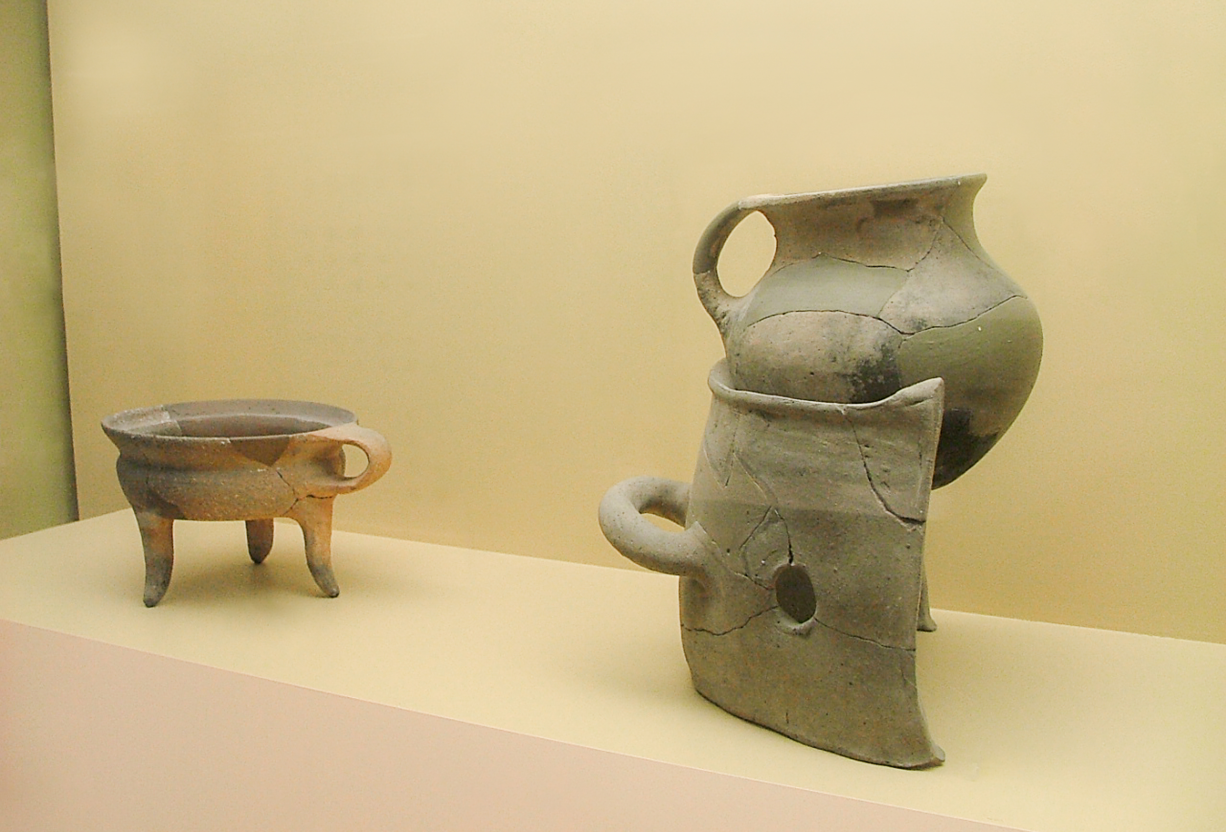 Cooking tripod and pot over a brazier. 6th/4th century BC. Ancient Agora Museum in Athens.